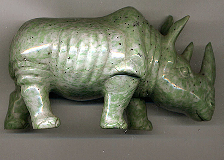 Scanned rhino, not taken with a camera but laid on the bed of a flat-bed scanner.